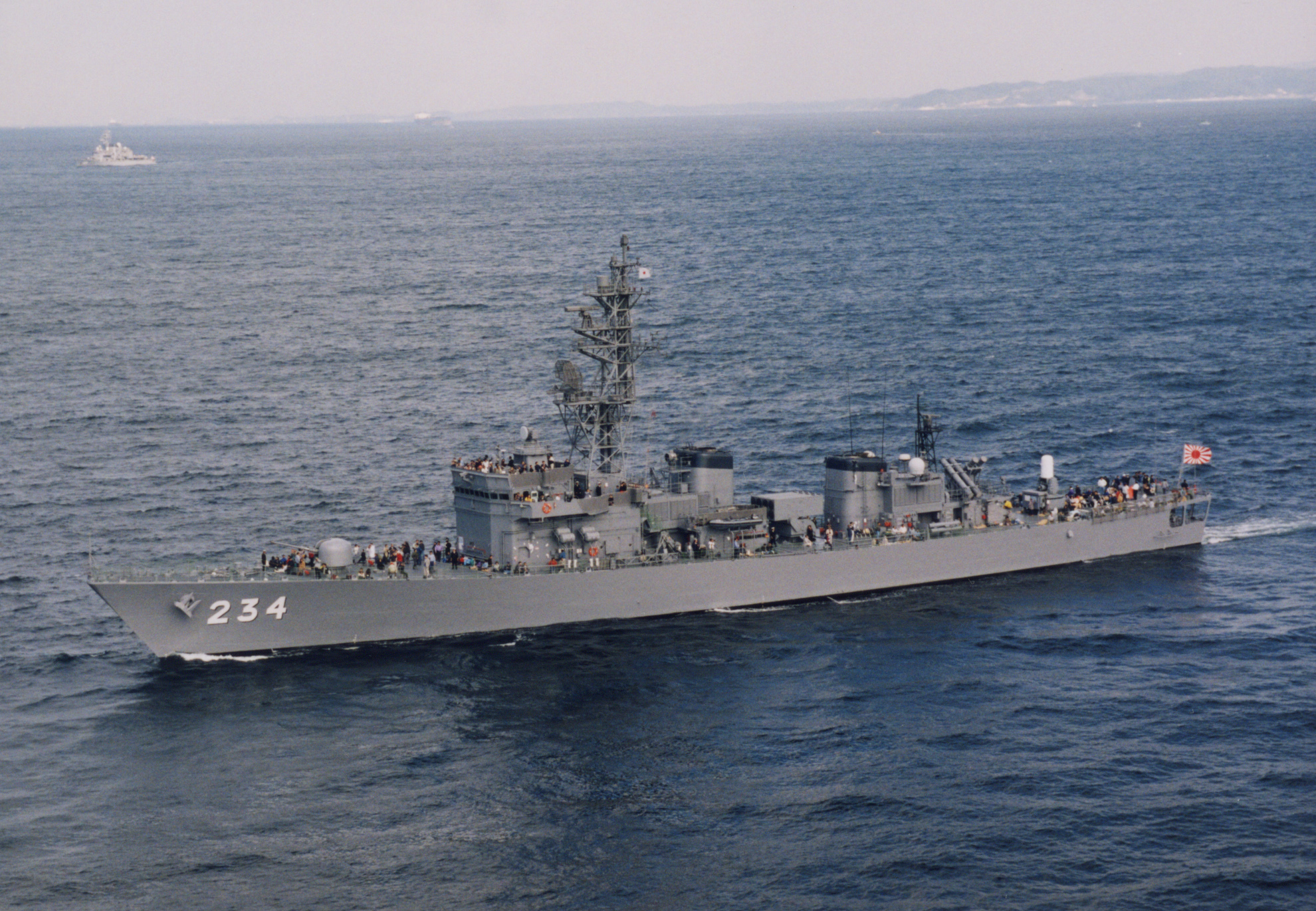 JS Tone (DE-234)